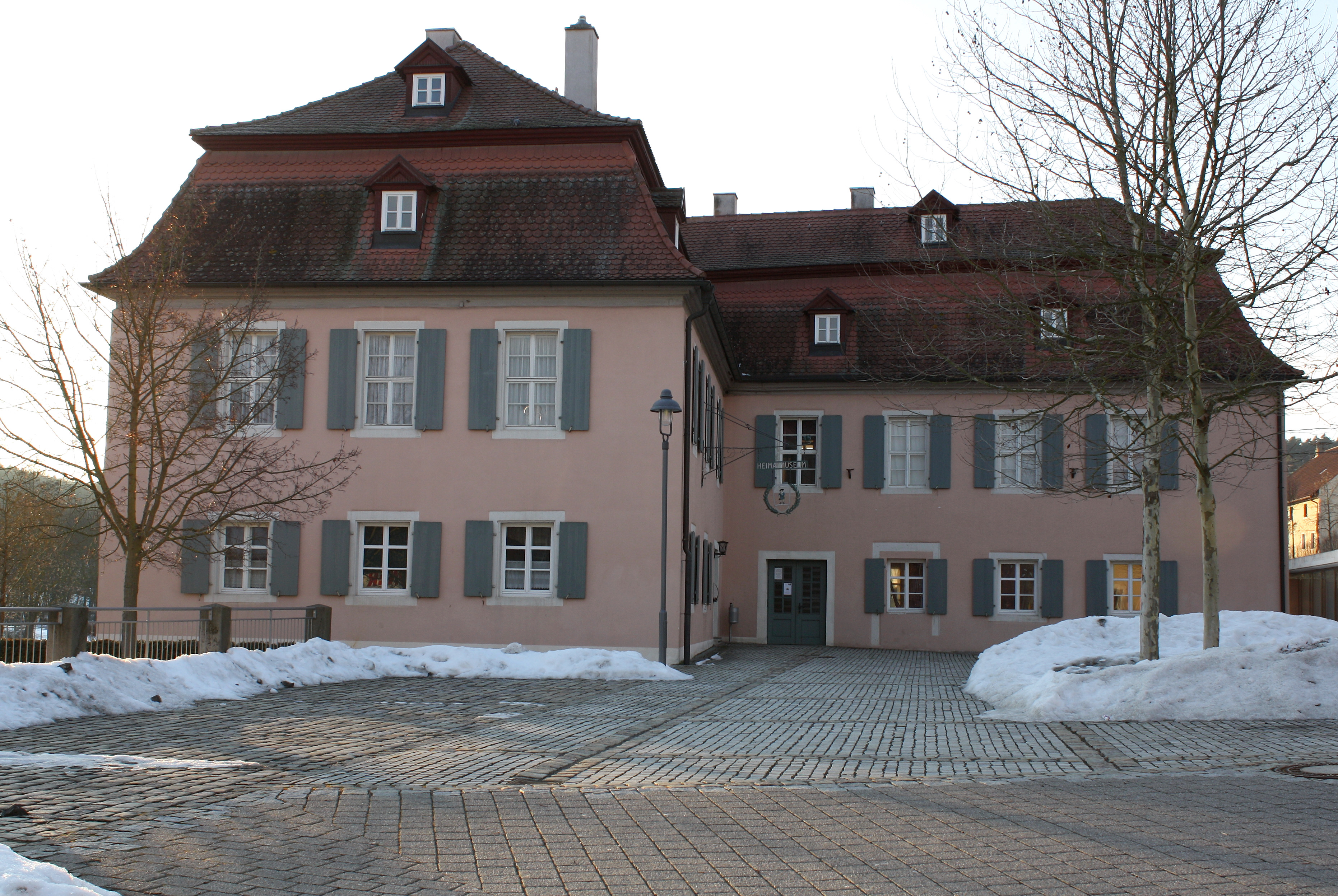 Dietenhofen - The local museum